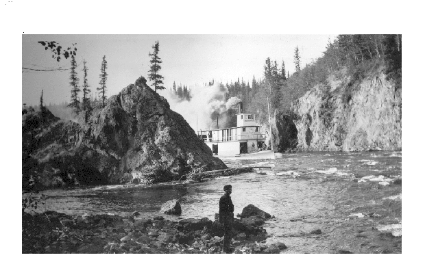 Nechacco on Nechako River. Photo taken July 28th, 1909